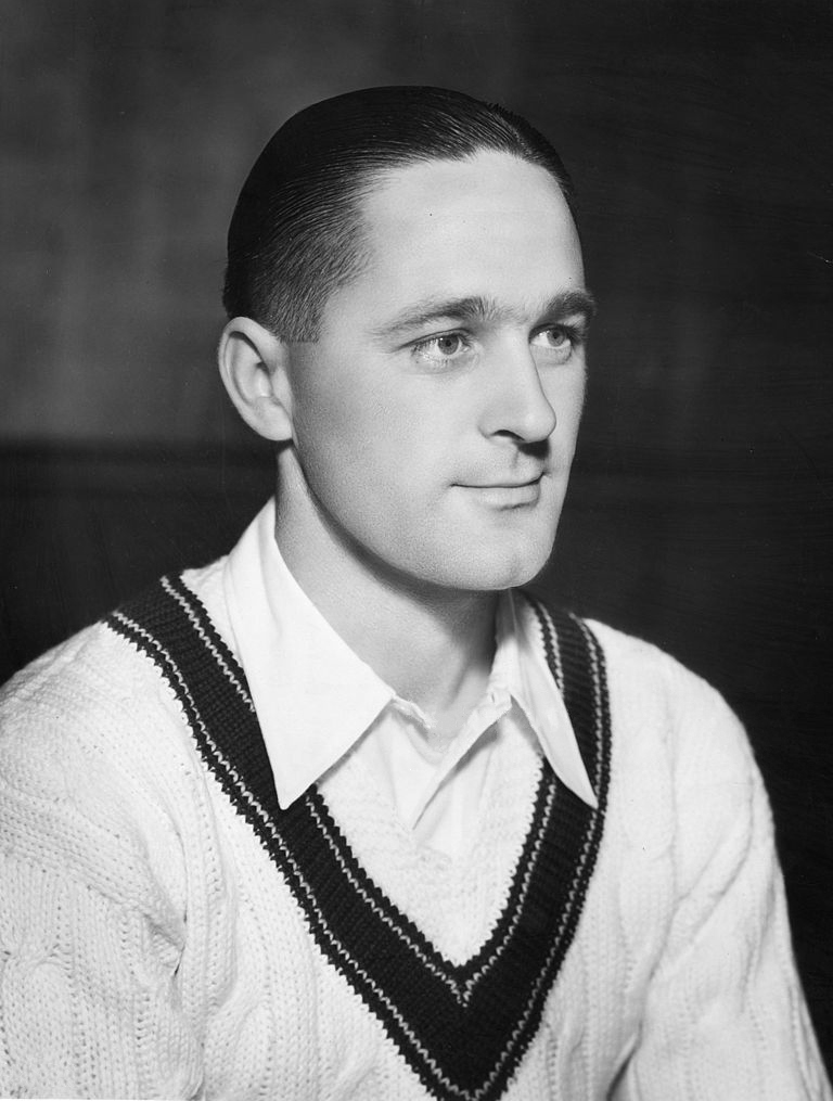 Australian cricket (bowler) player Len S Darling (1909 - 1992) played for Australia (1932 - 1937) making a total 474 runs.